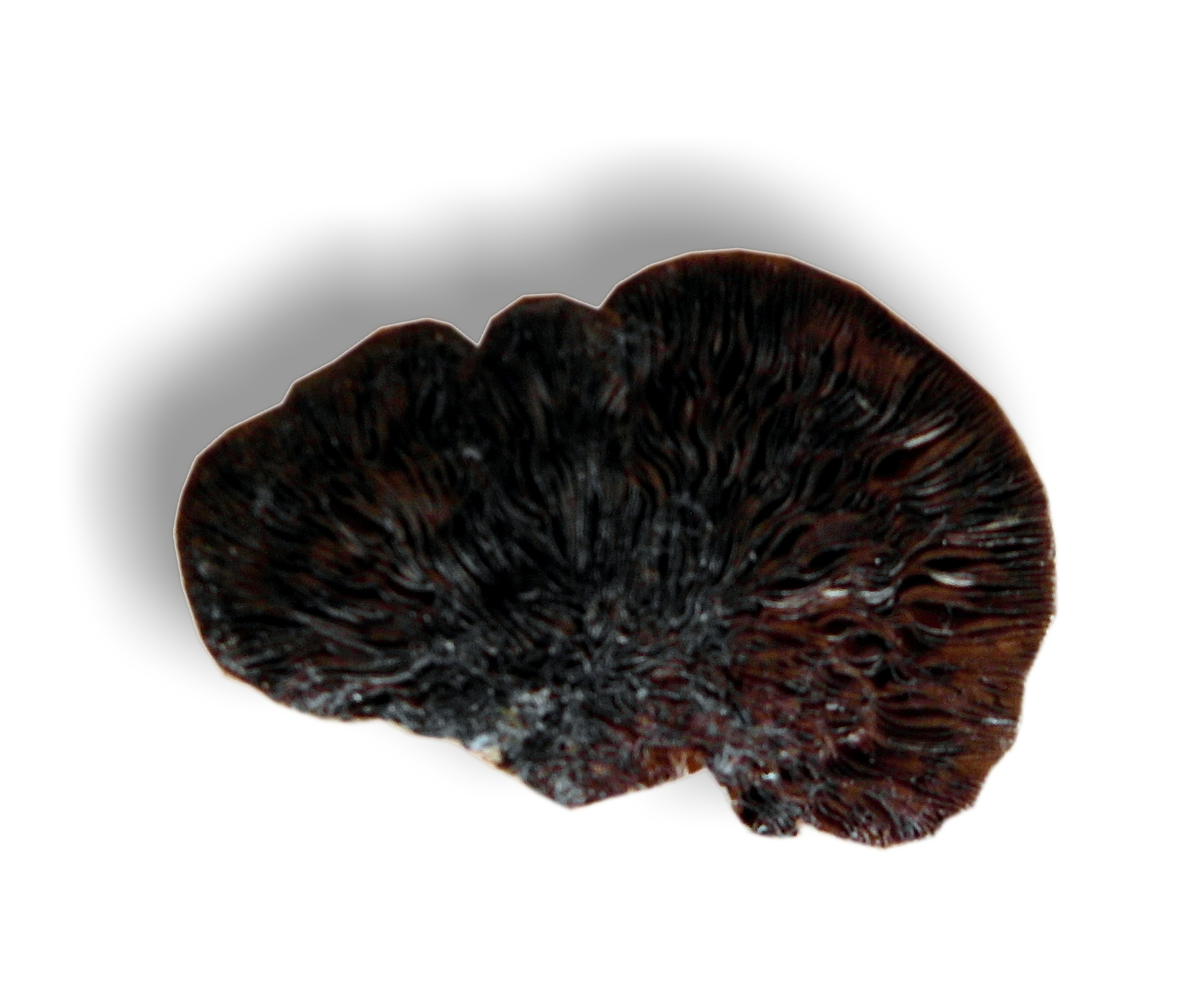 Lenzites warnieri, upper surface. Collected June 4th 2011 from a White Willow (Salix alba) at the Danube riverside near Pilismarót, Hungary. Maximum width 7.6 cm, maximum depth 5.0 cm, maximum height 1.4 cm.